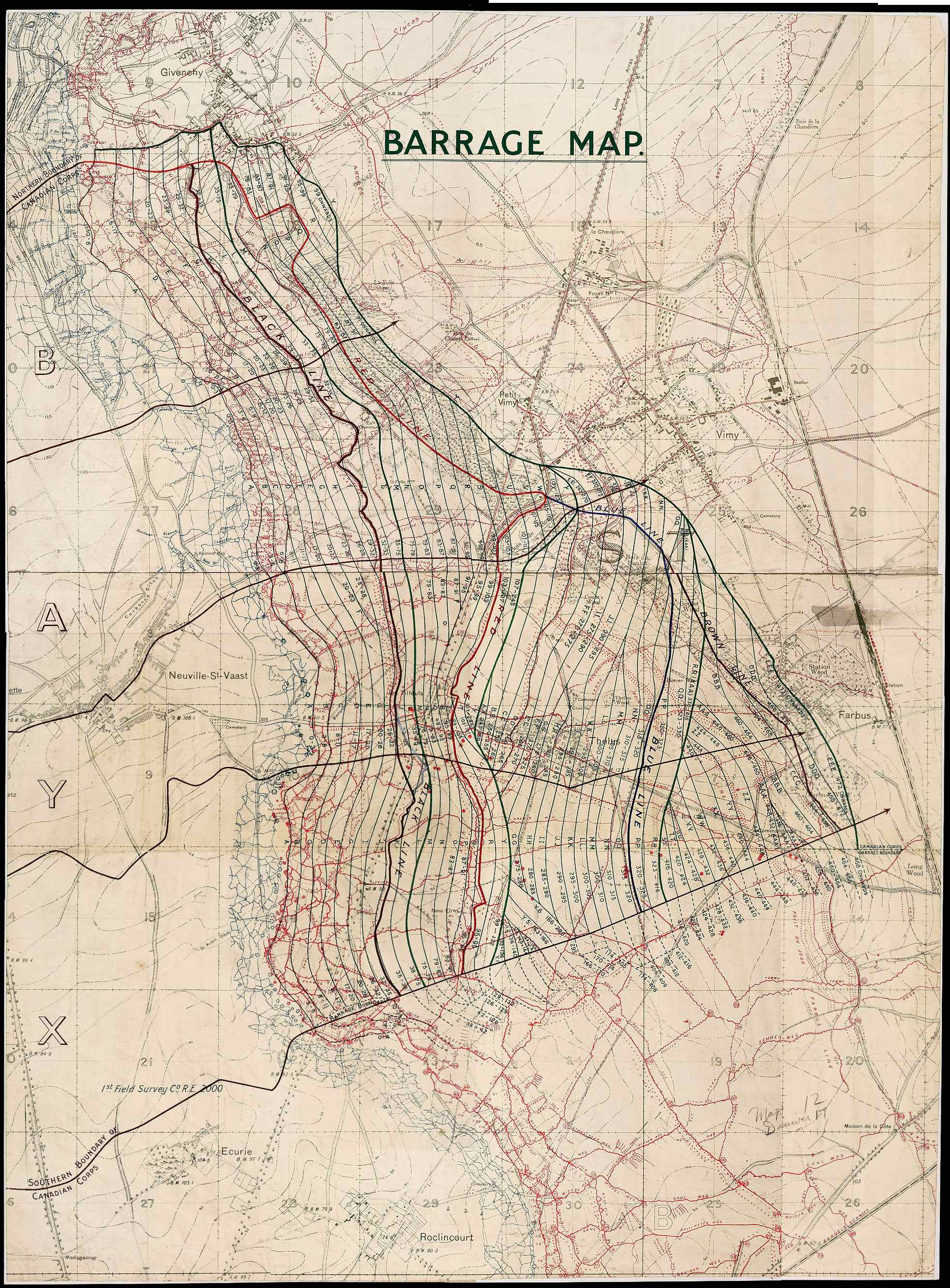 High Resolution Barrage Map [Showing Boundaries and Objectives for Assault on Vimy Ridge, Scale [1:10,000]